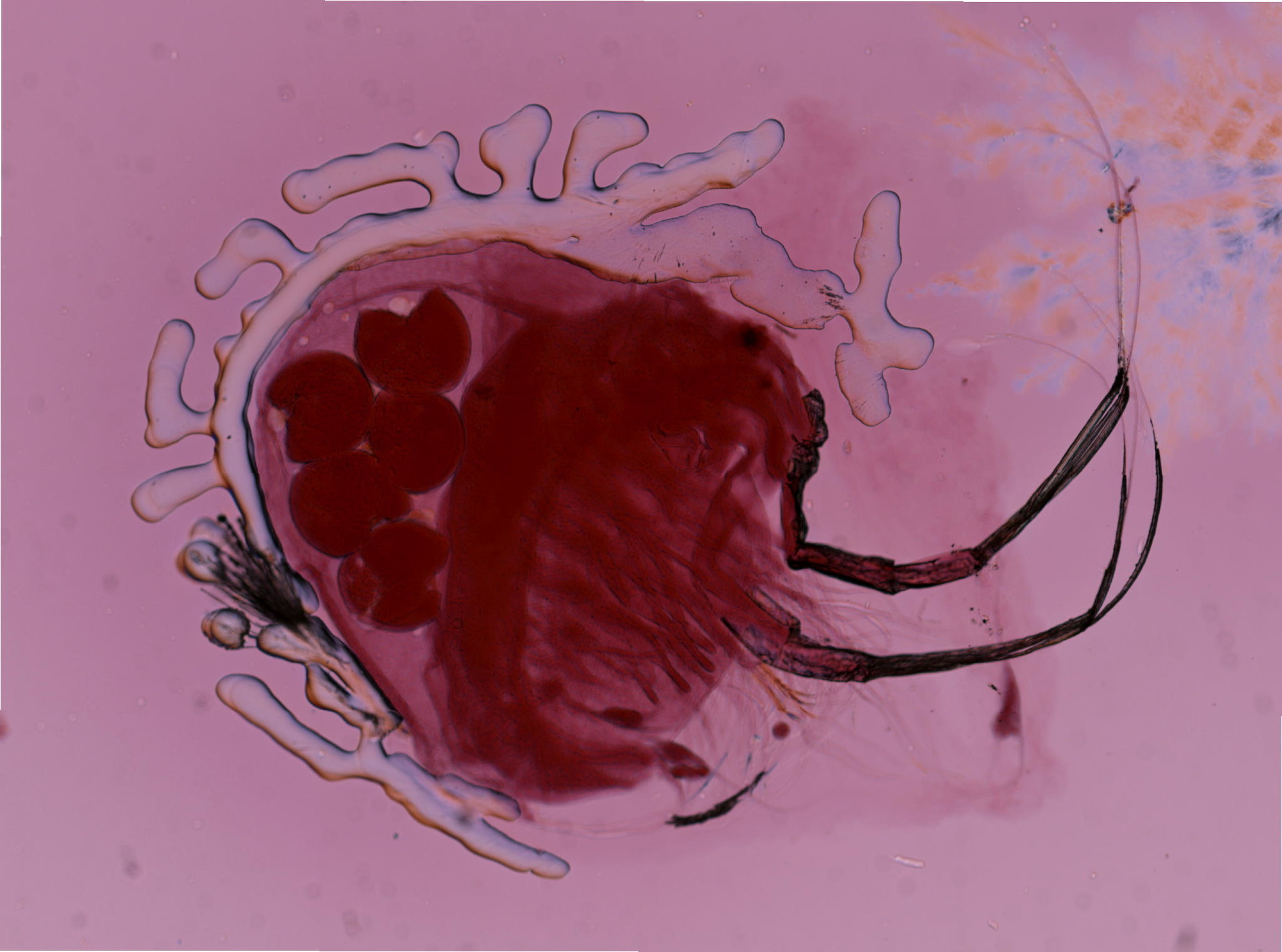 PRESERVED_SPECIMEN; ; ; microslide; ; IZ number 95835; lot count 1; Microslide 01, balsam, whole mount; 1966-08-20T00:00:00Z